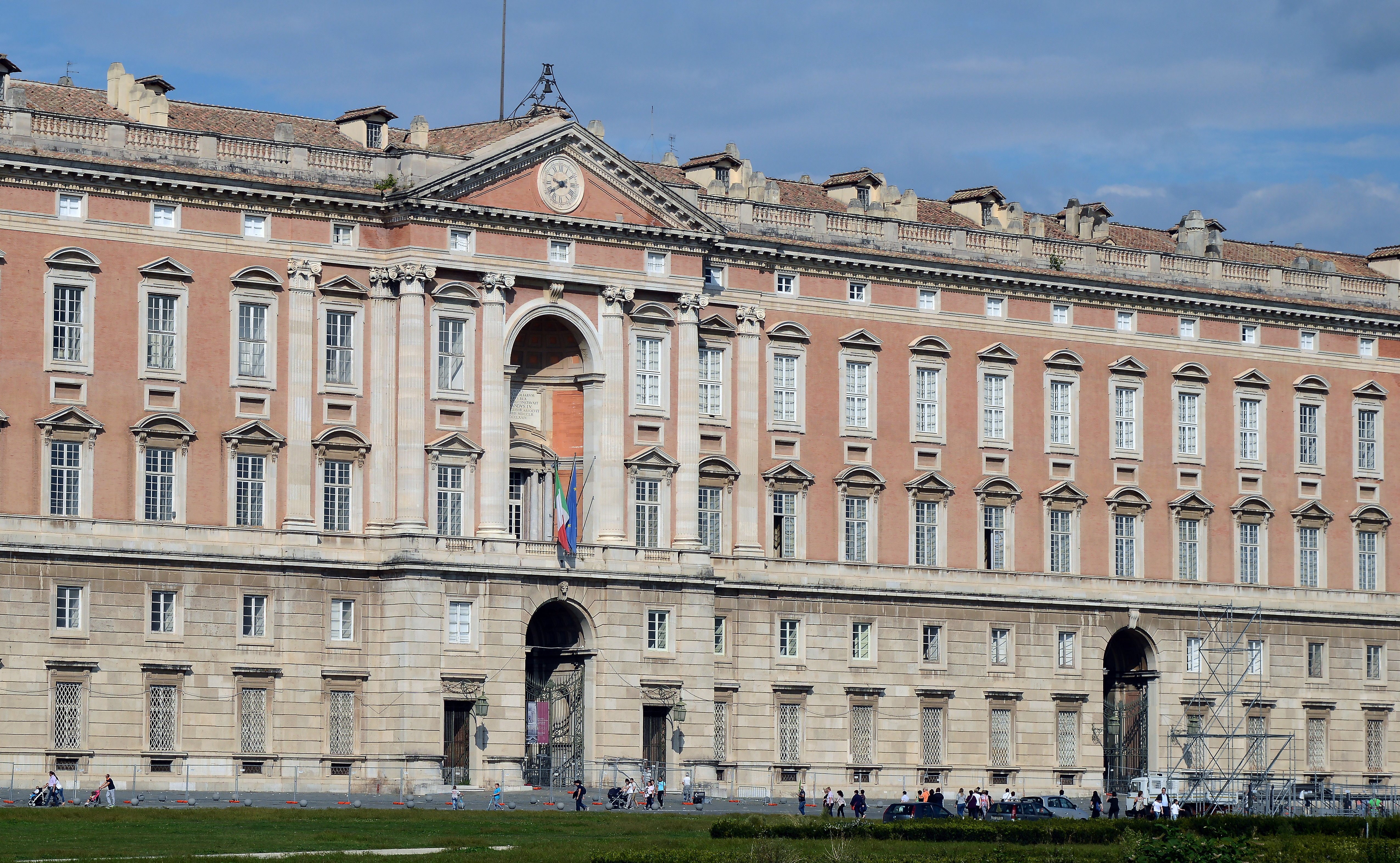 Palace of caserta,front view